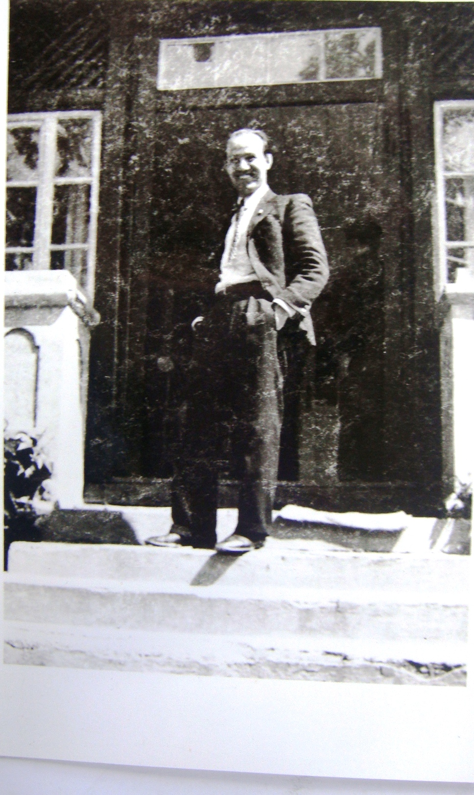 Ljuben Lape This media file is produced by Wikipedian in Residence in Category:Wikipedian in Residence at DARM in 2016.